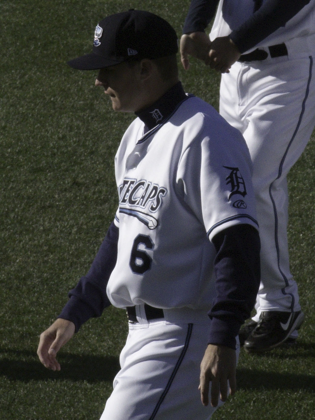 Members of the West Michigan Whitecaps including Jason Kirzan warm up before a game in Comstock Park, Michigan in 2012